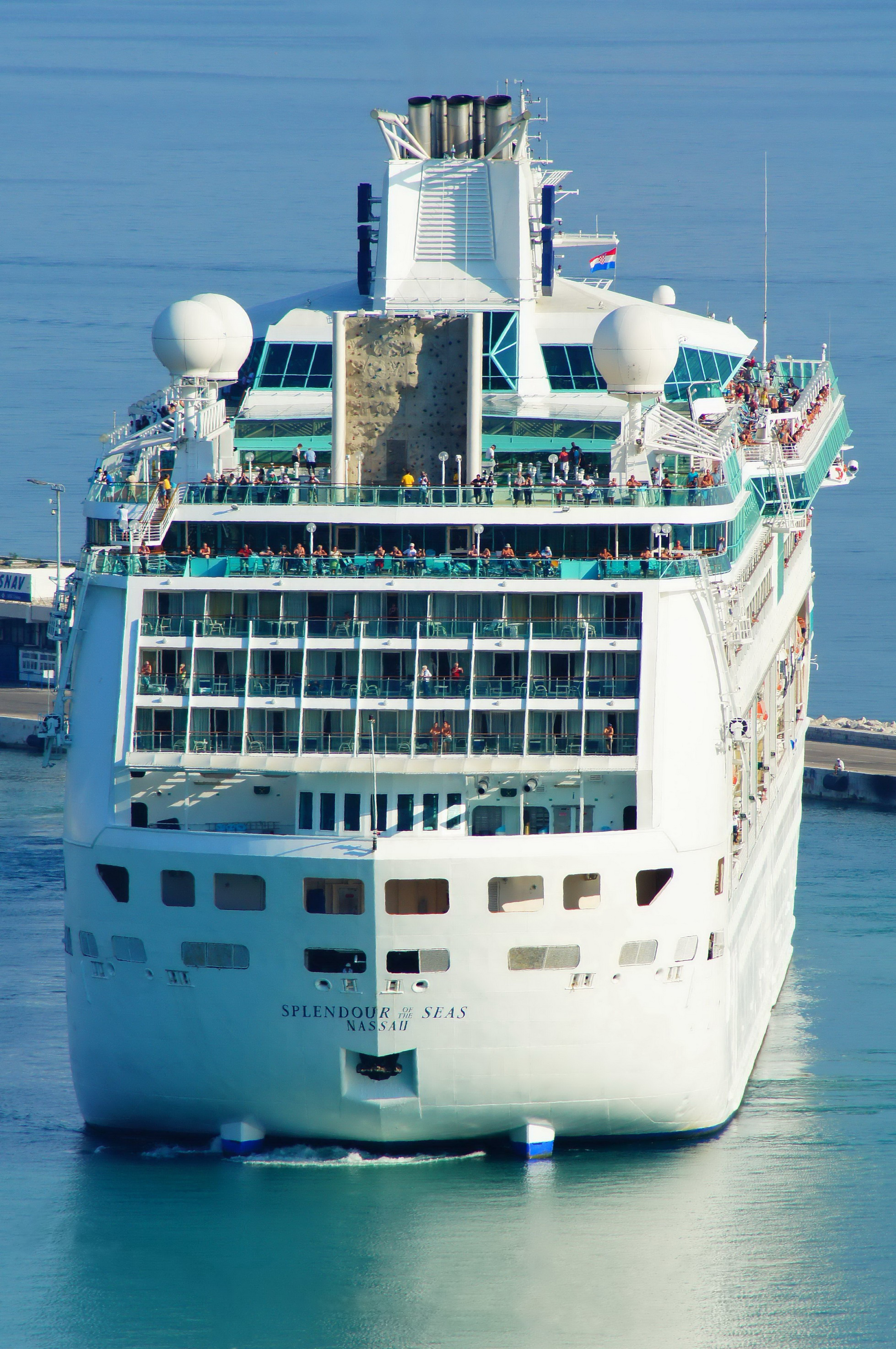 Splendour of the Seas (ship, 1995) IMO 9070632; in Split, 2011-10-06 Turning to depart from the port of Split, after being moored at the breakwater.